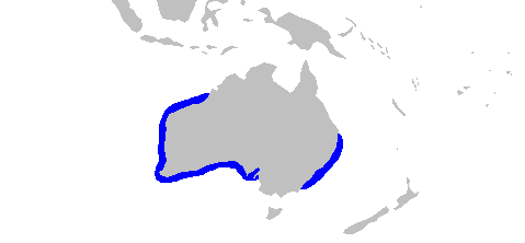 Range of the coffin ray (Hypnos monopterygius). Based on [1]